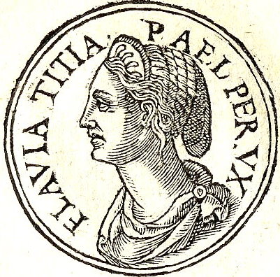 Flavia Titiana was a Roman empress, wife of emperor Pertinax, who ruled briefly in 193.